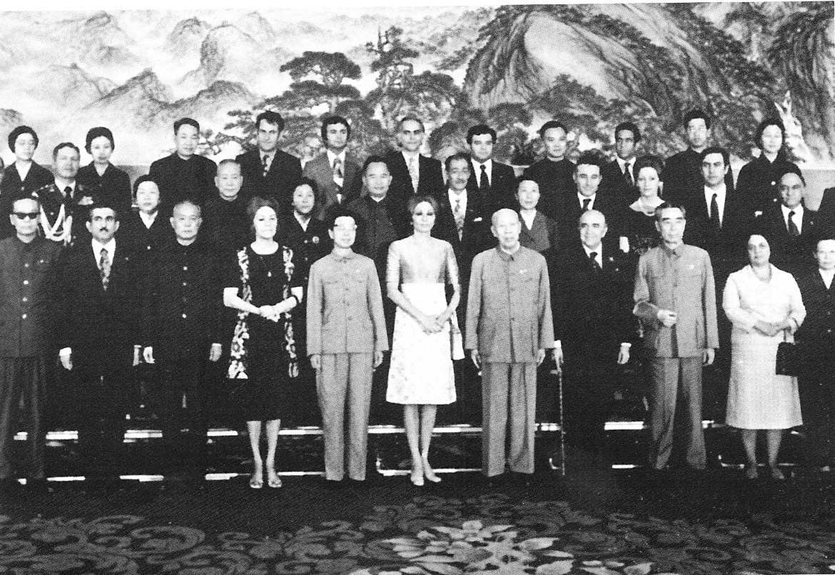 Shahbanu Farah Pahlavi and Prime Minister Hoveyda, staat visit, China, 1972